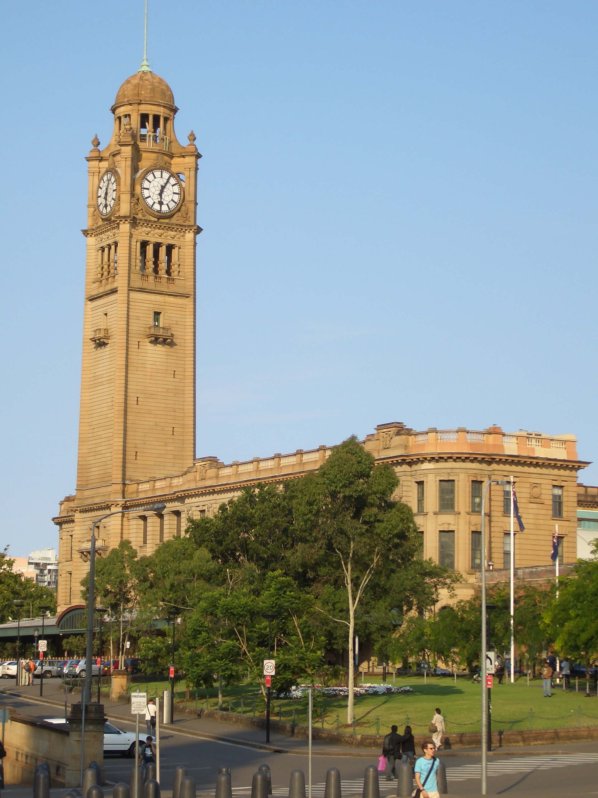 Central Station Railway Square